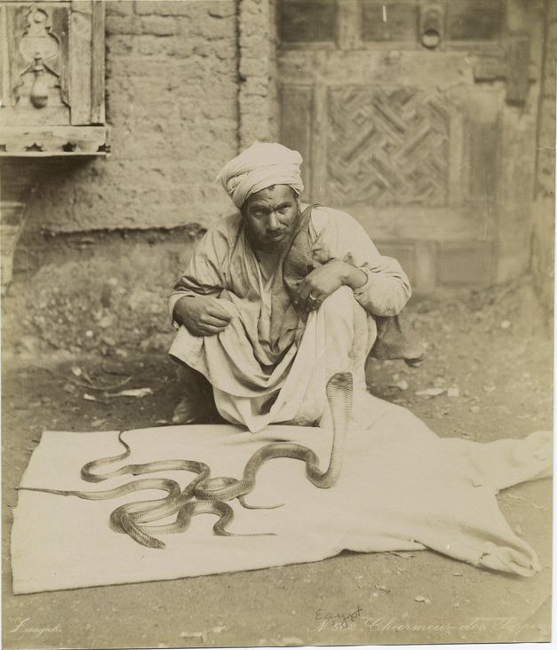 A serpent charmer in Egypt, 1860s Digital ID: 88437. Zangaki -- Photographer. 1860s-1920s Source: [Photographs and prints of Egypt and Syria.] (more info) Repository: The New York Public Library. Photography Collection, Miriam and Ira D. Wallach Division of Art, Prints and Photographs. See more information about this image and others at NYPL Digital Gallery. Persistent URL: Rights Info: No known copyright restrictions; may be subject to third party rights (for more information, click here)